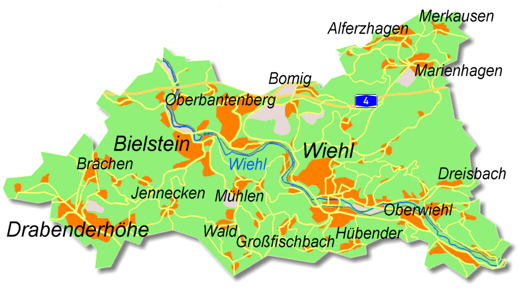 Map of Wiehl 2005 created by Benutzer:Morty